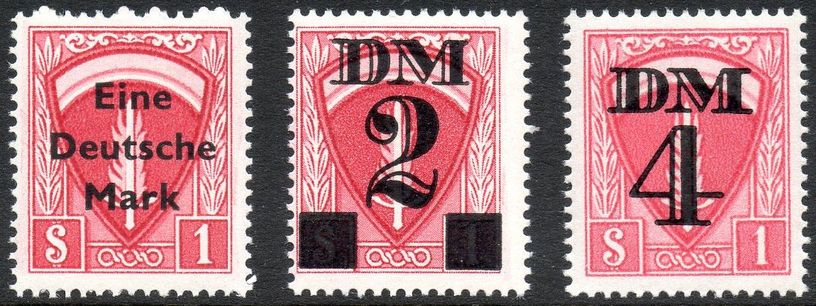 Revenue stamps of the Allied Military Government for travel permits. "Eine Deutsche Mark" is 1950, the others are 1951.